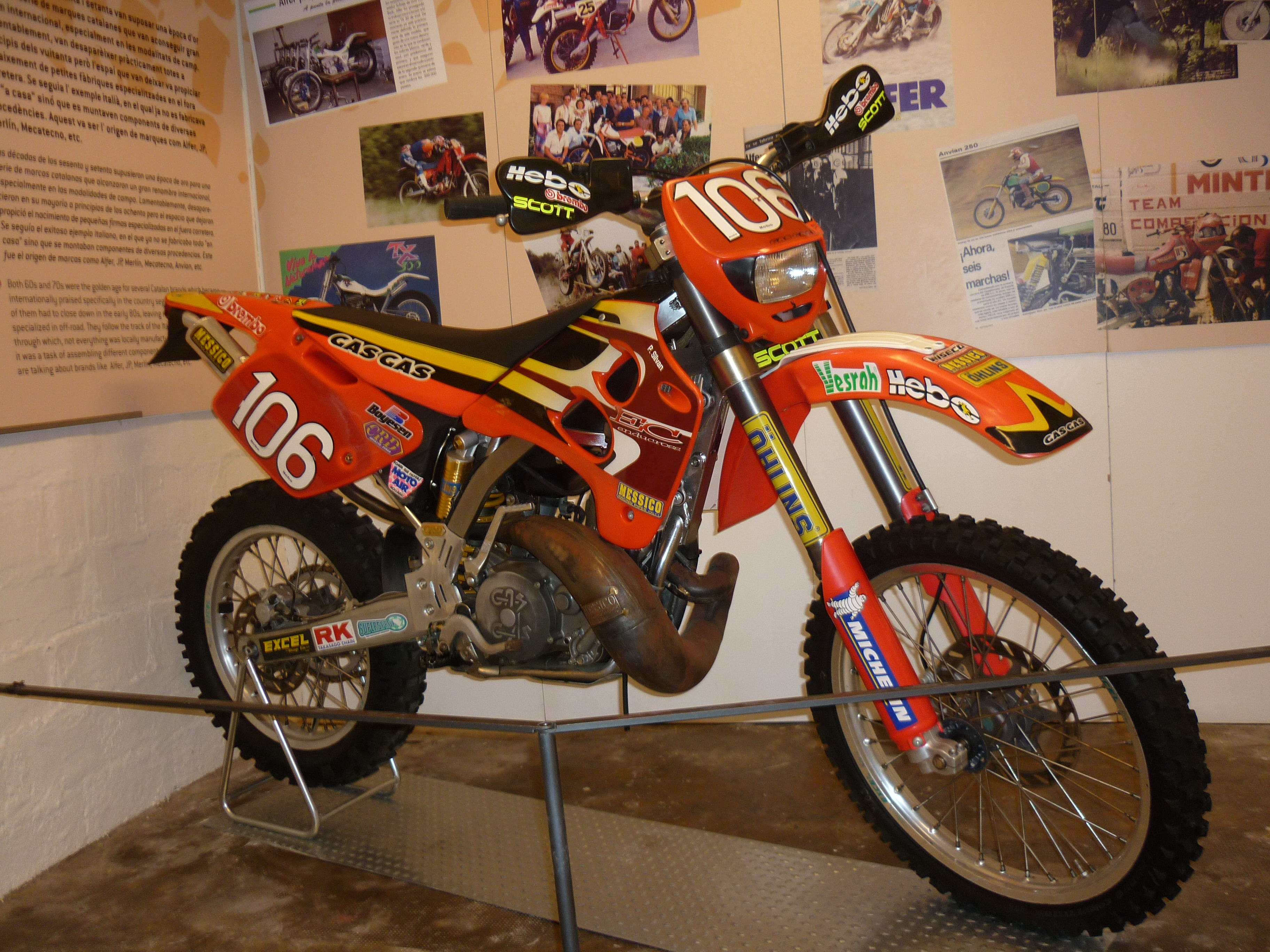 Gas Gas EC 250cc de 1999. On this bike, Petteri Silván won the 250cc World Enduro Championship (WEC) on 1999.